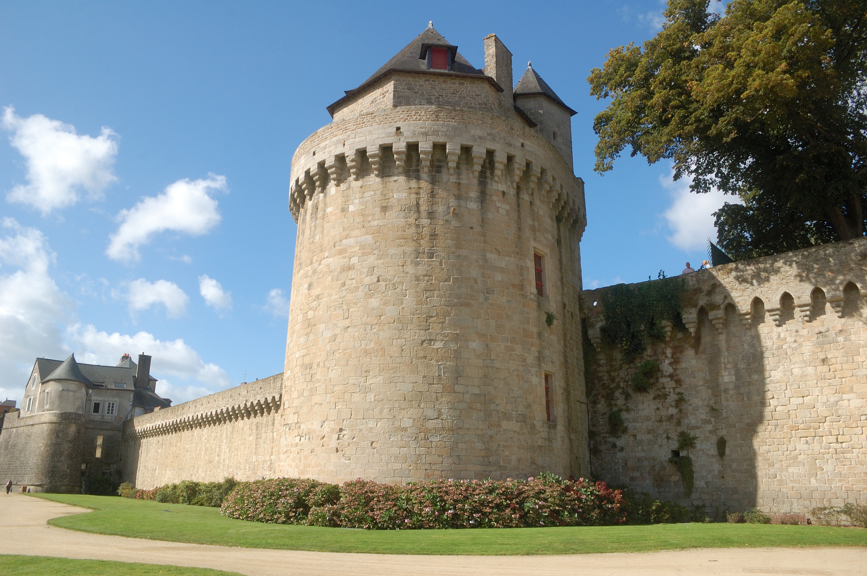 Vannes, Connétable Tower, seen from north.